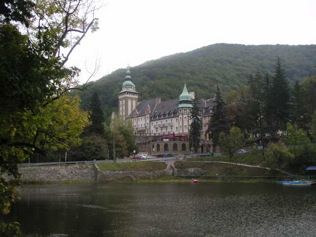 Lillafüred Lake and Palace Hotel Author: Wojsyl